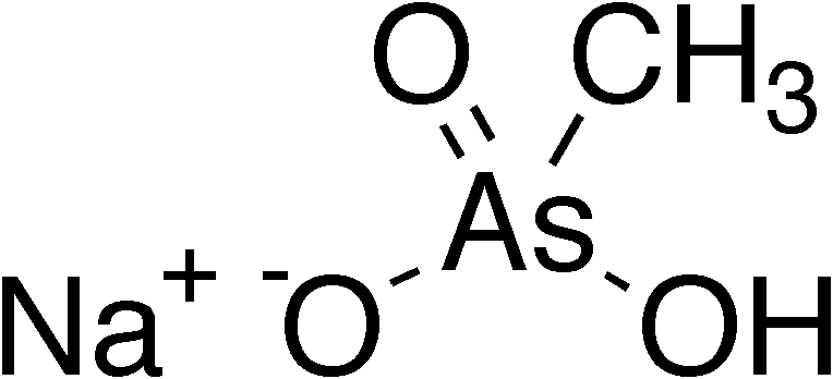 chemical structure of monosodium methyl arsonate (MSMA)